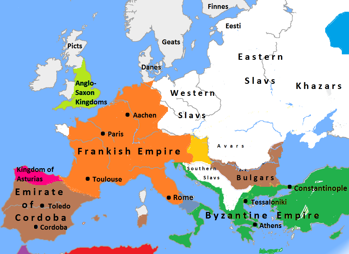 Map of Europe in 814